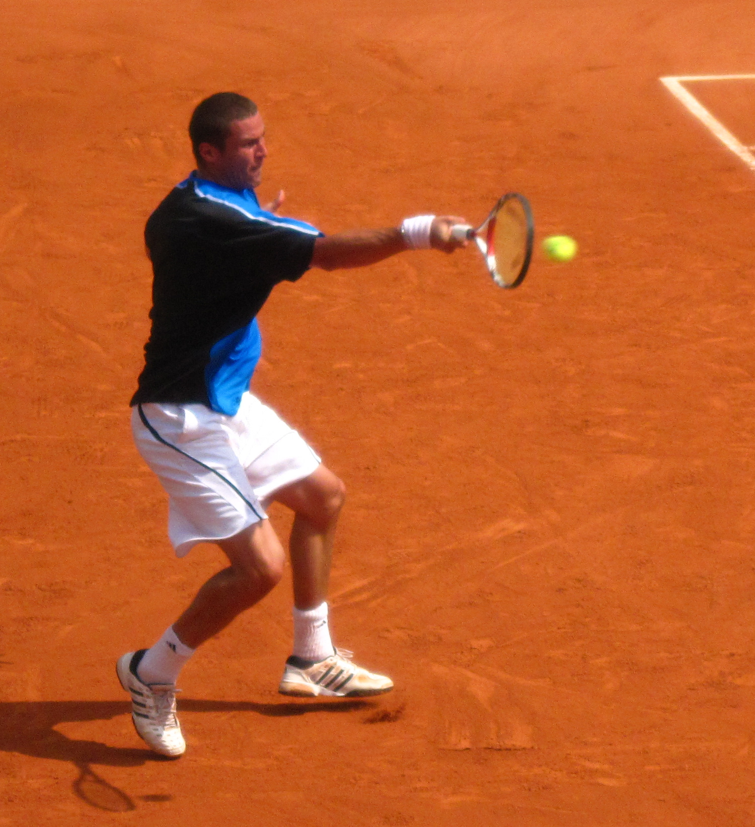 Marat Safin at 2009 Roland Garros, Paris, France